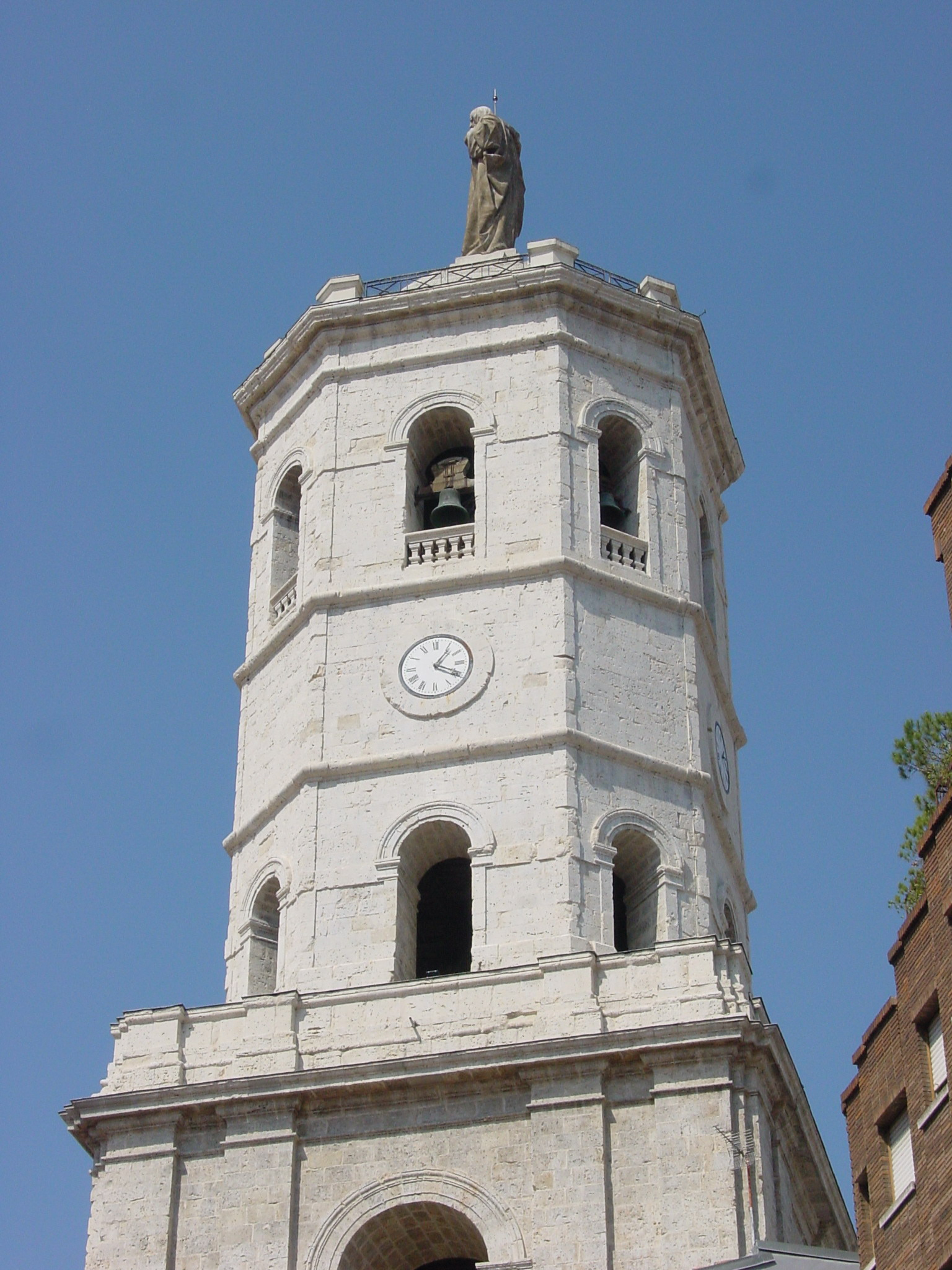 Valladolid. Actual tower of the cathedral built between 1880 and 1890. The coronation cupule and the monumental statue of the "Sagrado Corazón de Jesús" were added in 1923.